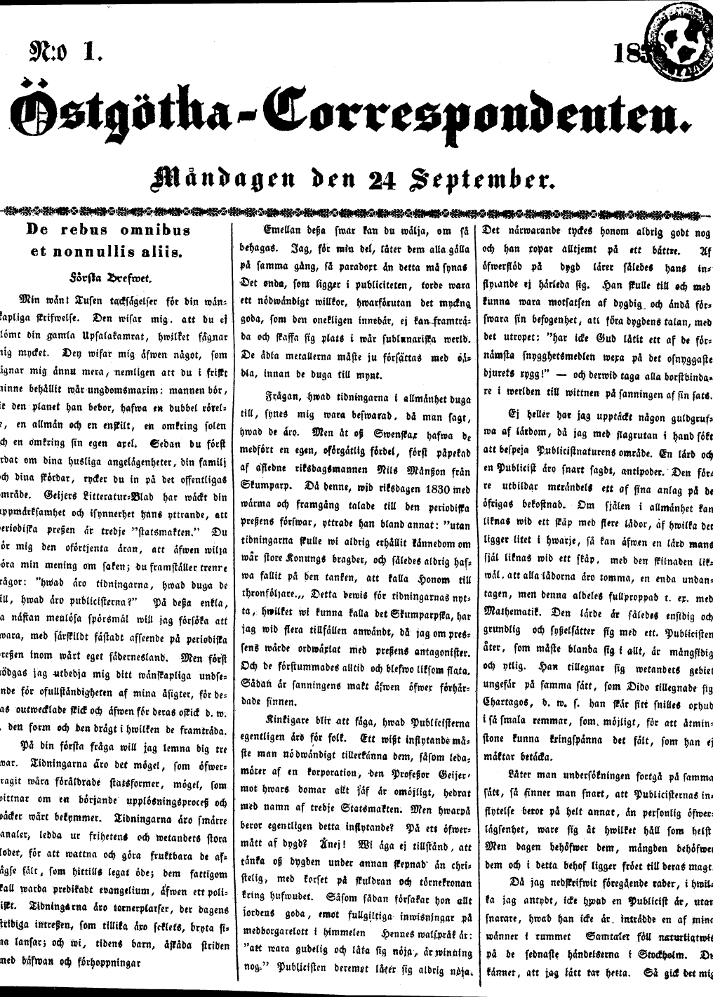 Cover of first issue of Östgöta Correspondenten, 24 september 1838